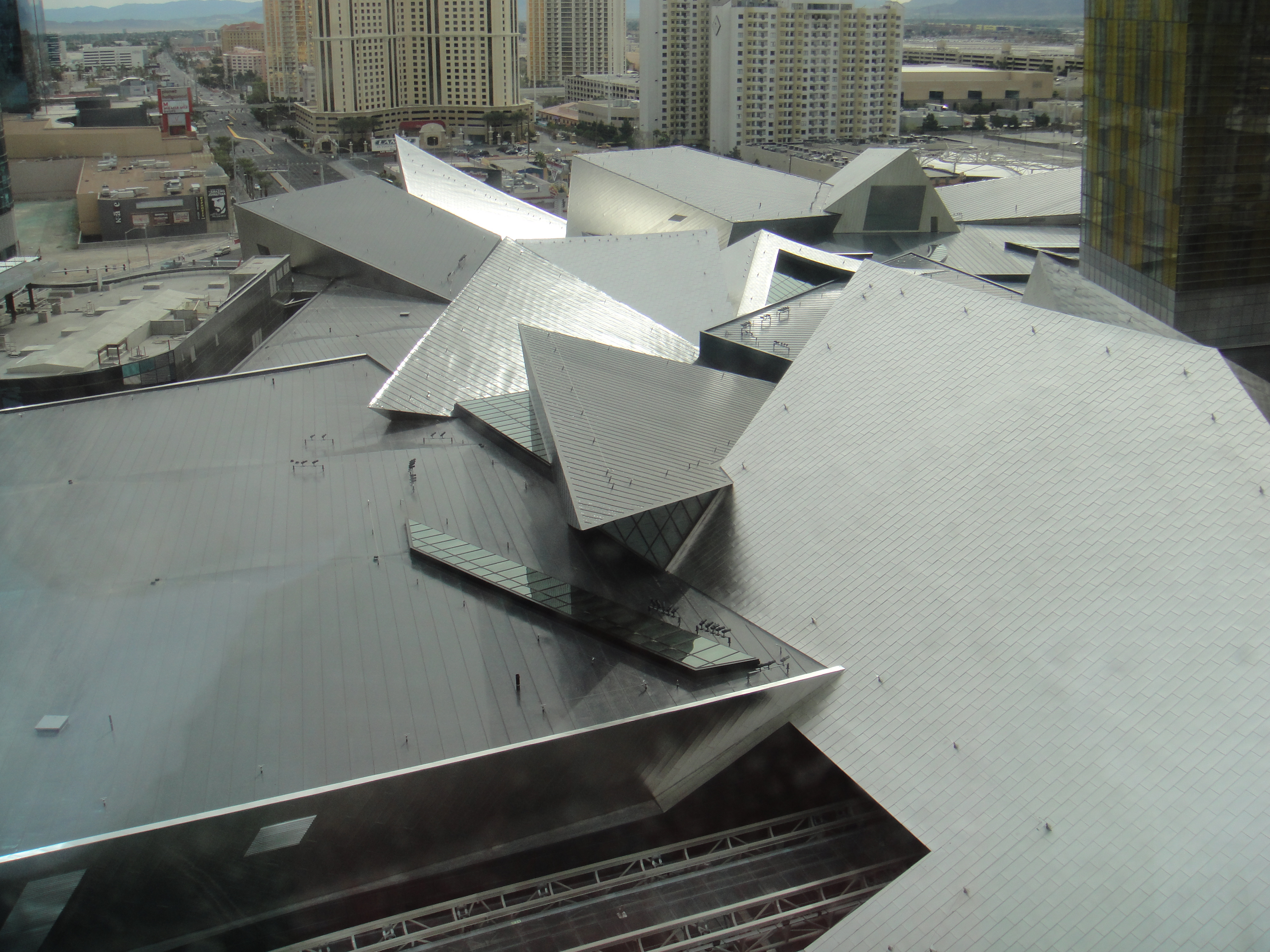 Exterior view of the complex roof lines of the Crystals at the CityCenter development in Las Vegas, Nevada